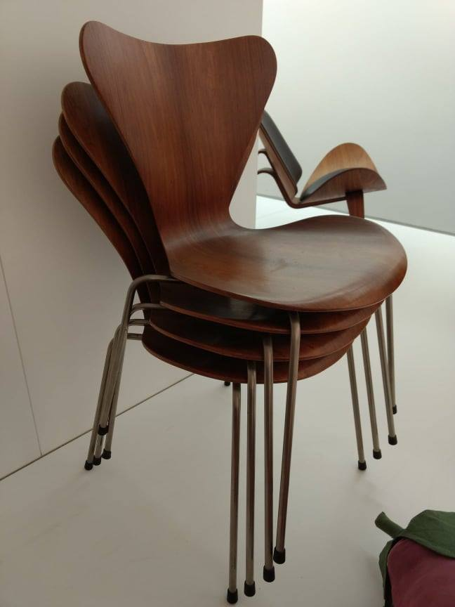 Chair no 7 by Arne-Jacobsen. From Pinakothek der Moderne